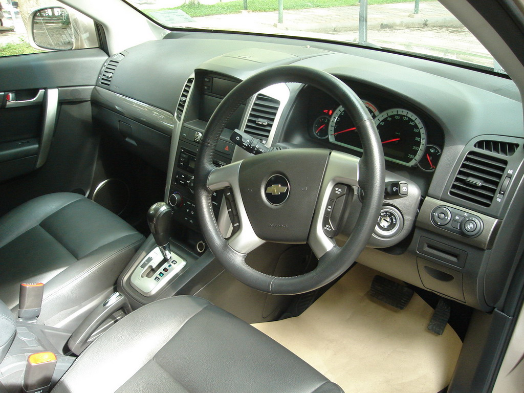 2007 Chevrolet Captiva (interior)